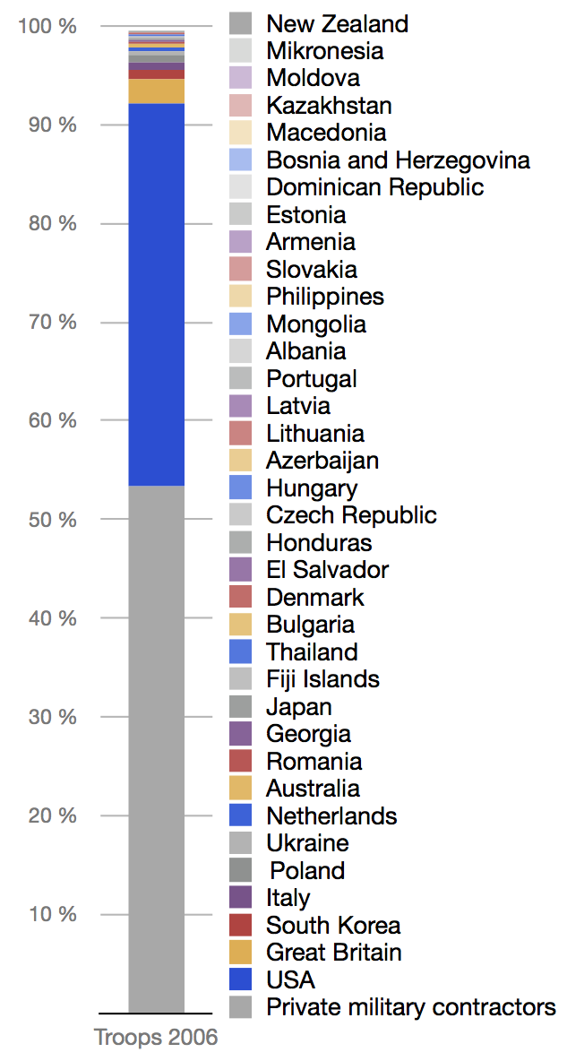 Number and origin of foreign troops in Iraq in 2006